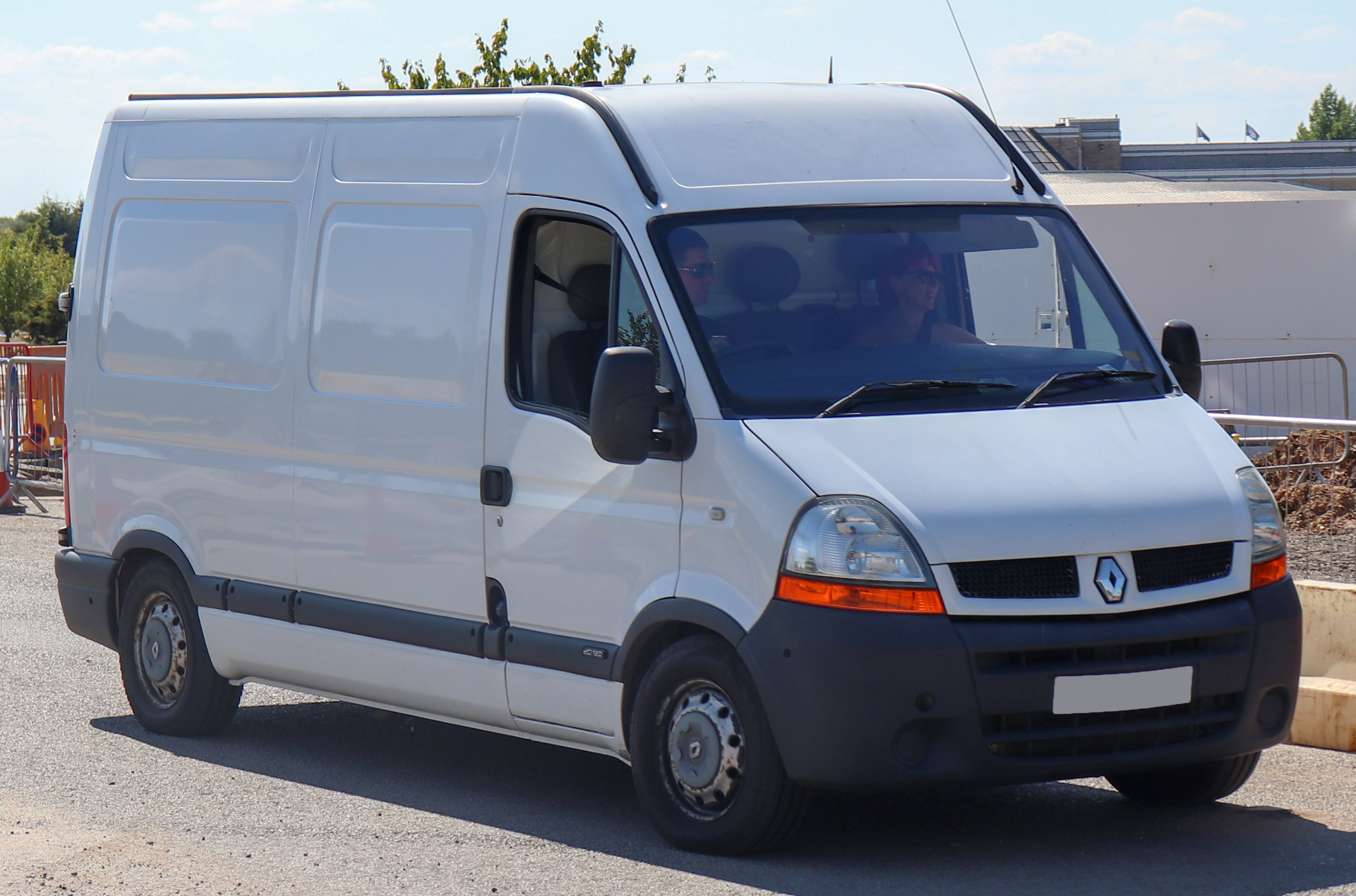 2006 Renault Master MM35 DCi 120 MWB 2.5 Taken at the British Motor Museum Old Ford Rally 2018, Gaydon